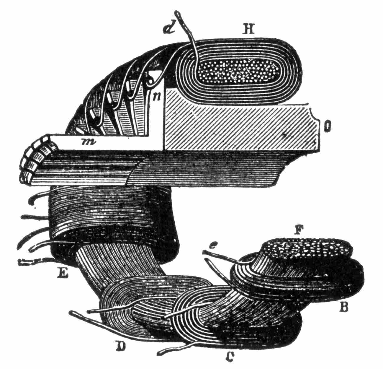 Text from original page: Figure 248: Early form of Gramme ring armature, the core being shown cut through, and some of the coils displaced to make it clearer. The core, F, consists of a quantity of iron wire wound continuously to form a ring of the shape shown by the section. Over this is wound about thirty coils of insulated copper wire, B C D, etc, the direction of the winding of each being the same, and their adjacent end connected together. The commutator segments consist of a corresponding number of brass angle pieces, m n, which are fixed against the wooden boss, o, carried on the driving shaft. The junction of every two adjacent cells is connected to one of the commutator segments, as shown at n.